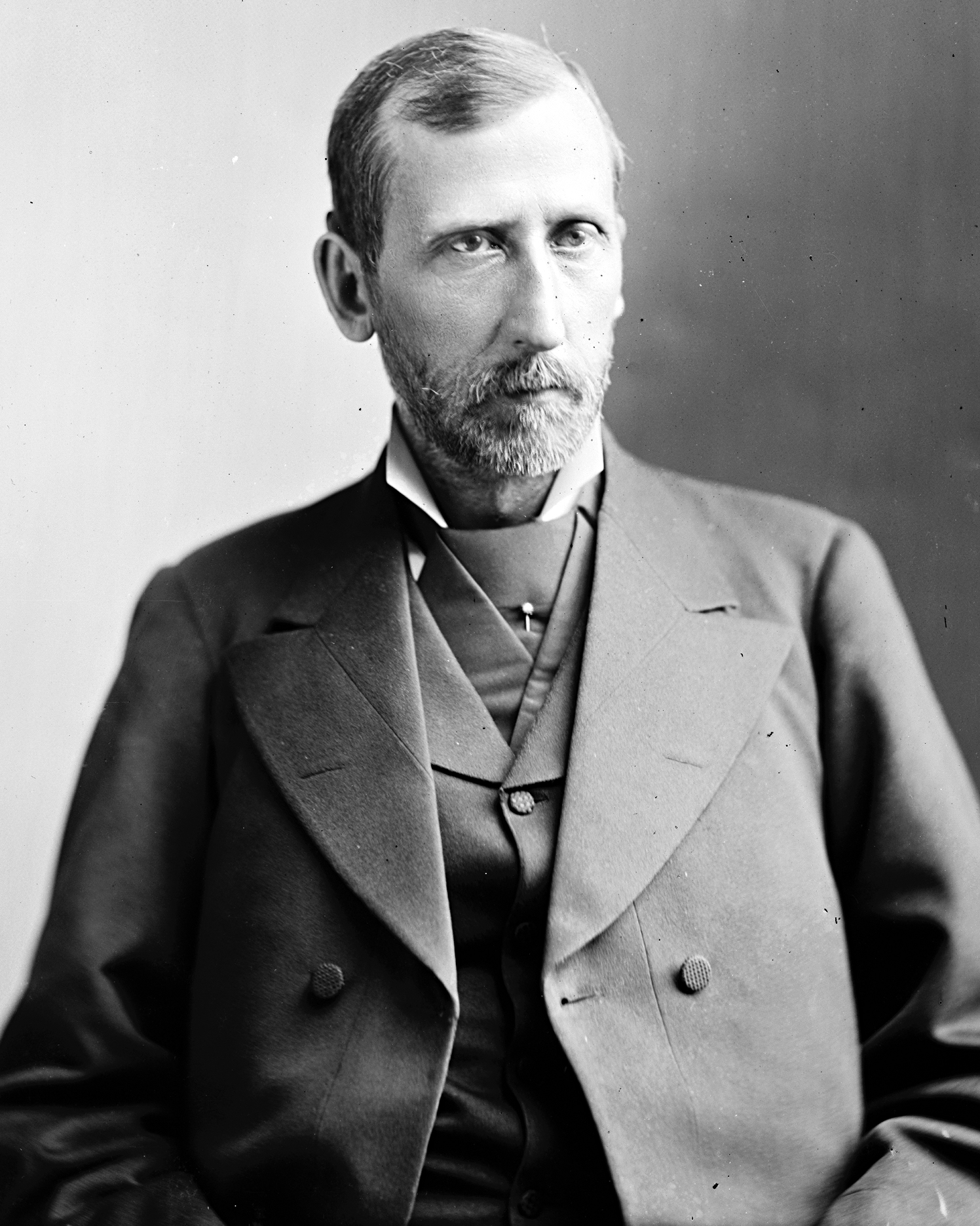 Henry Moses Pollard, US Representative from Missouri